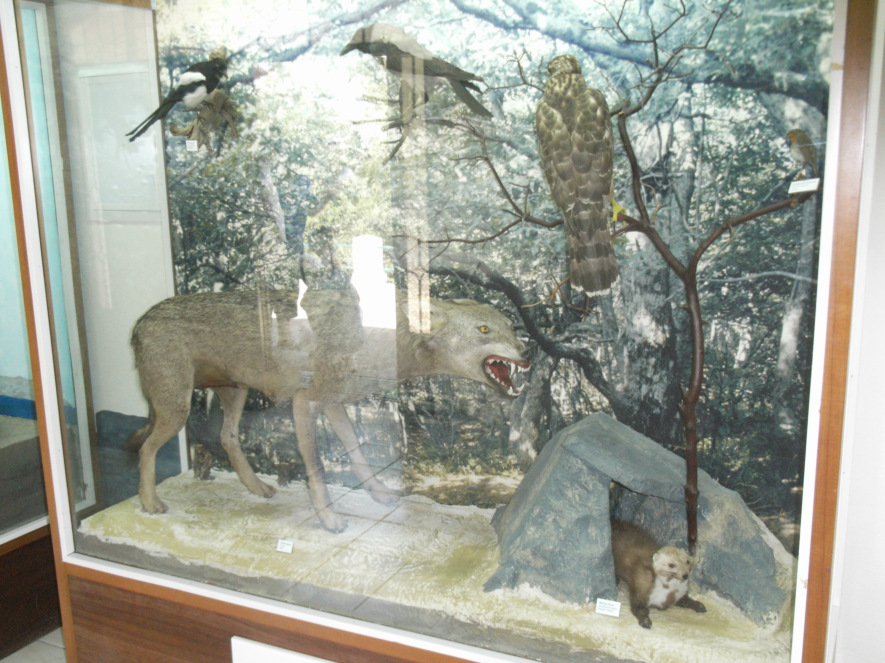 Exhibition case in the Nature Museum at Petaloudes, Rhodes Eurasian wolf Canis lupus lupus Linnaeus, 1758 Beech Marten Martes foina (Erxleben, 1777) Northern Goshawk Accipiter gentilis(Linnaeus, 1758) European Magpie Pica pica (Linnaeus, 1758) Carrion Crow Corvus corone Linnaeus, 1758 European Robin Erithacus rubecula (Linnaeus, 1758)